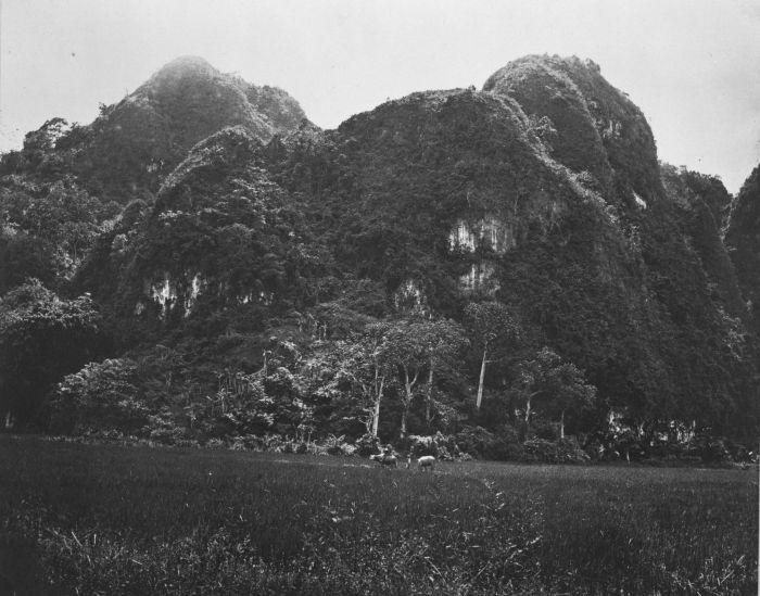 Limestone rocks and rice fields near Pangkajene